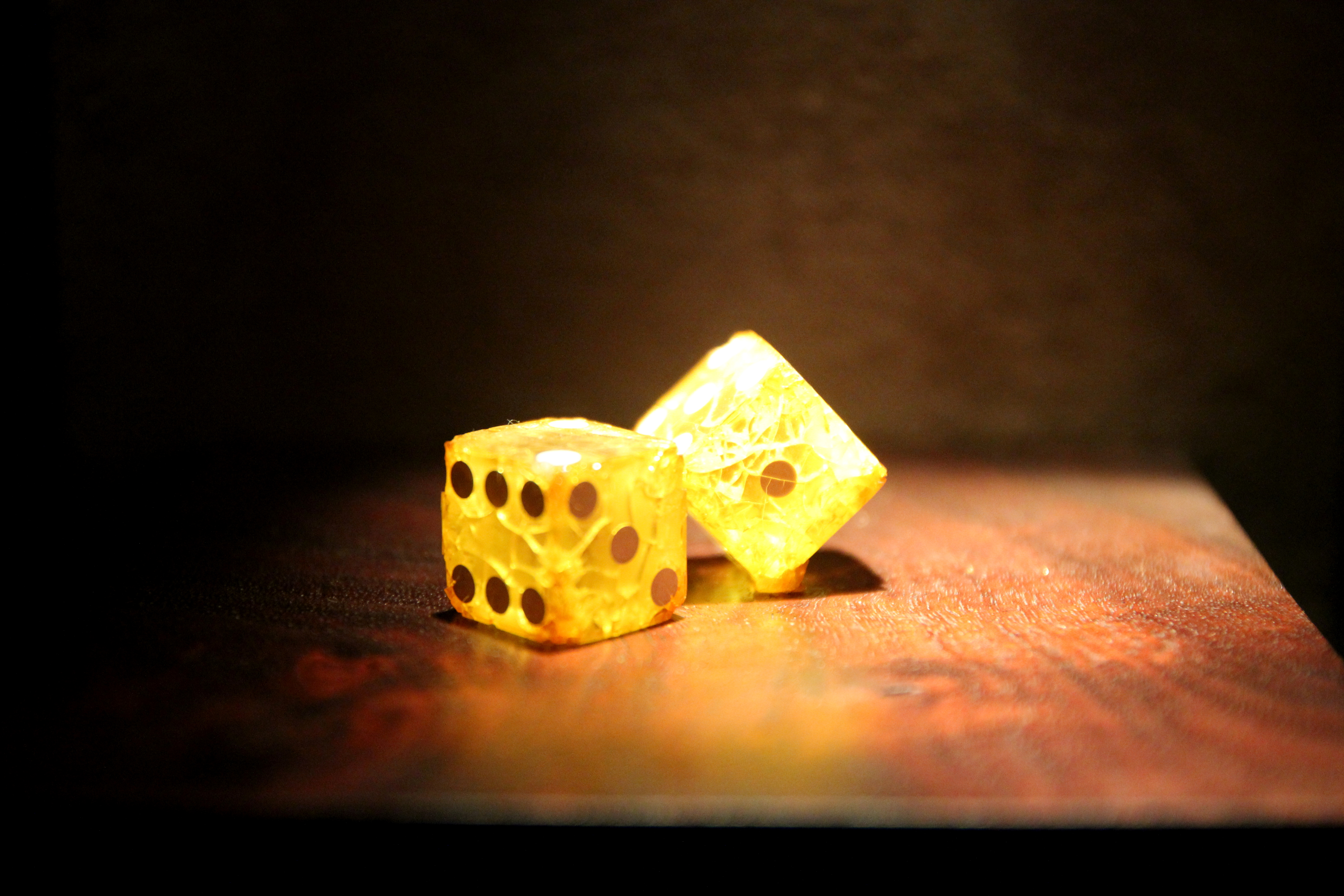 Ricky Jay dice in exhibit.